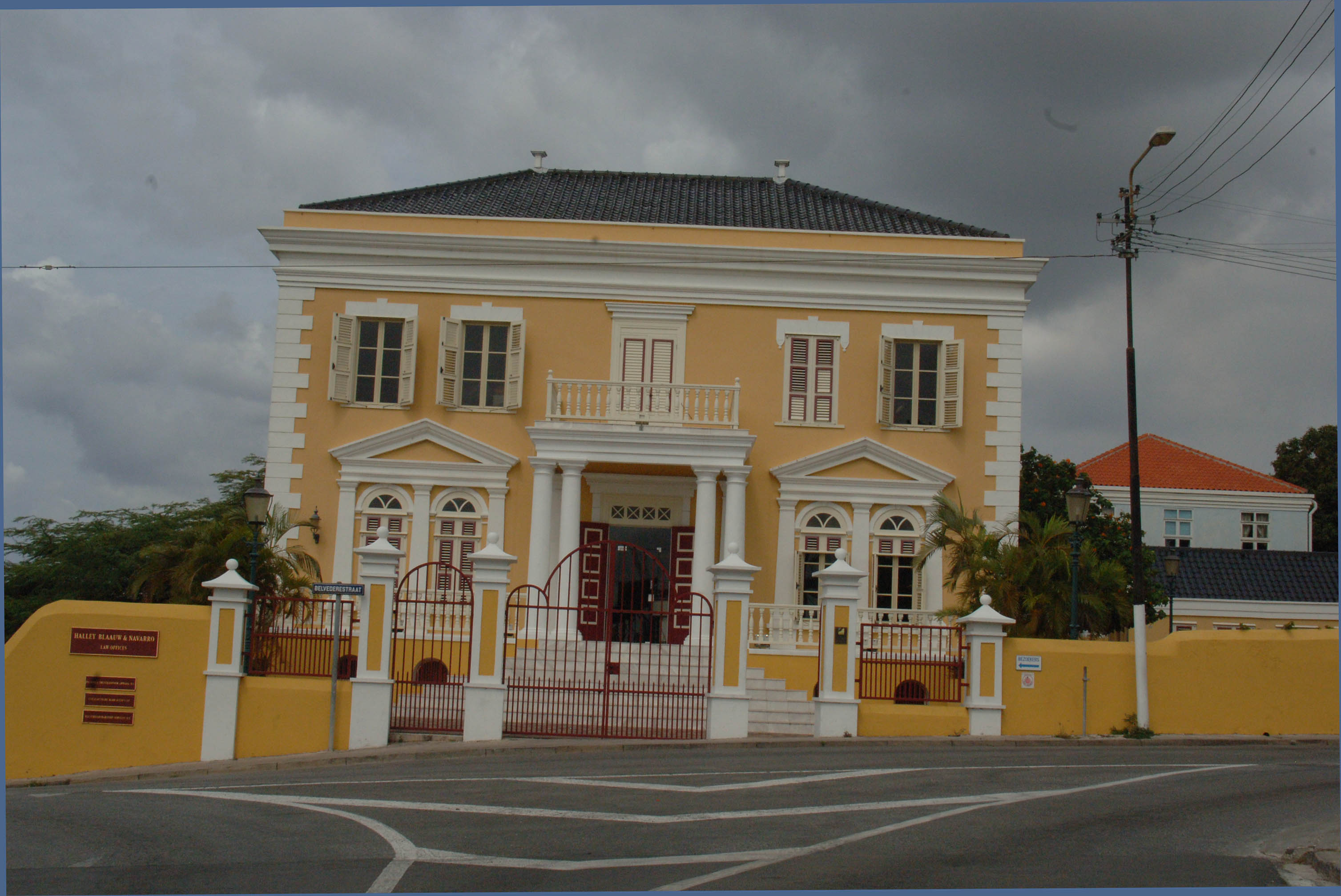 BELVEDERE MANSION OF 1874 – NOW A LAW OFFICE